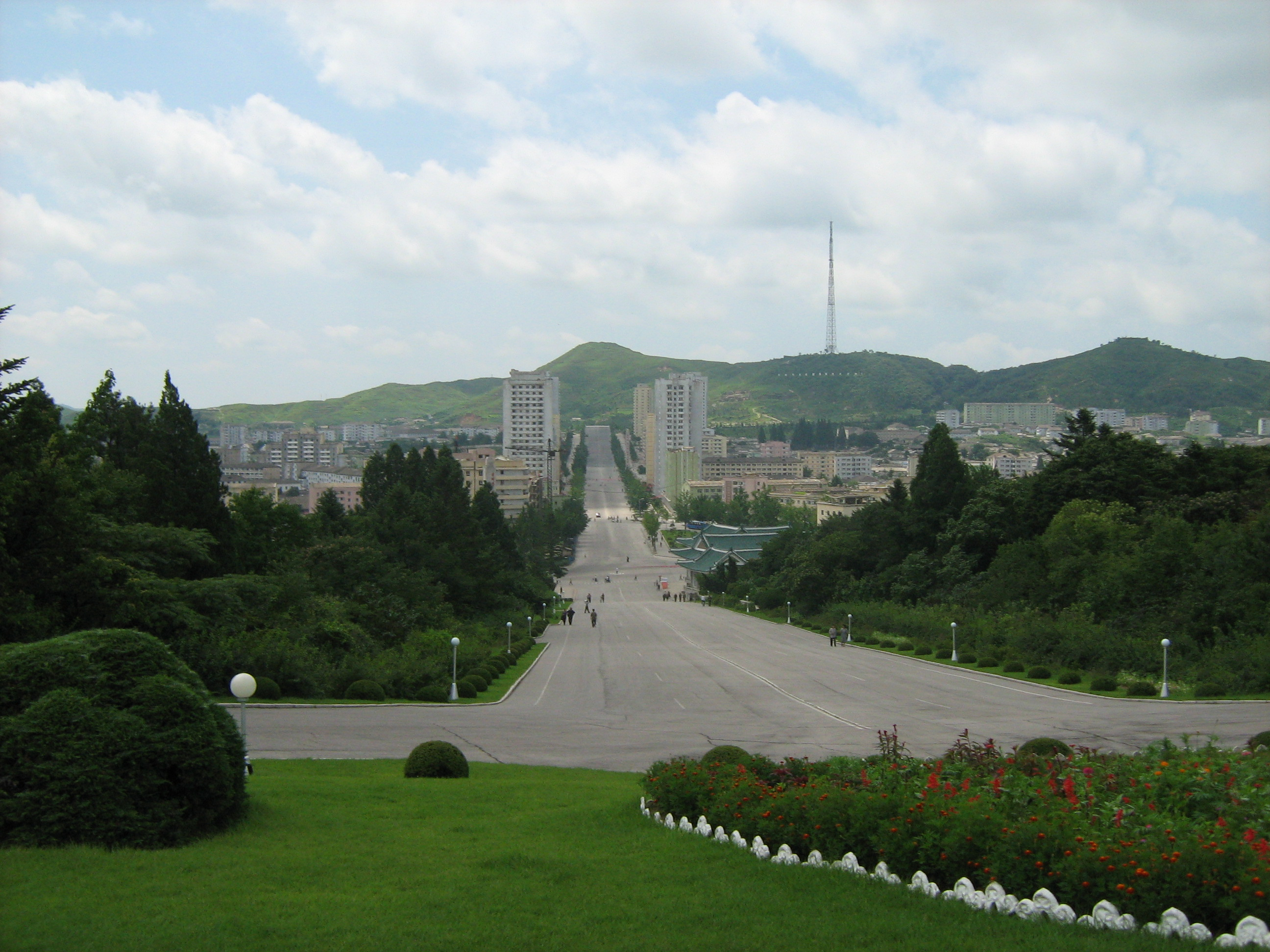 This shows the city of Kaesong, North Korea, in summer.